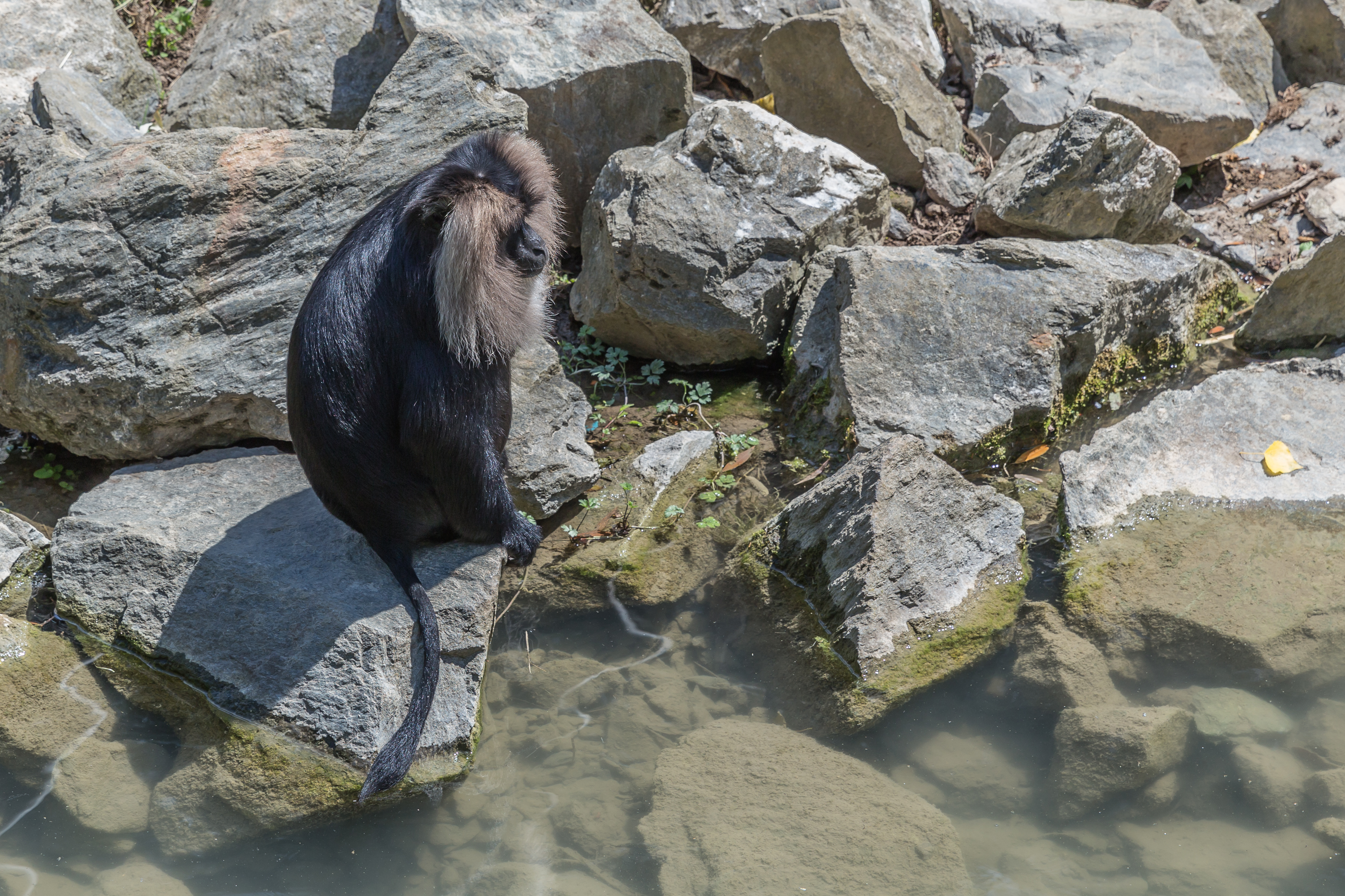 Macaca silenus (Lion-tailed macaque) in the ZooParc de Beauval in Saint-Aignan-sur-Cher, France.